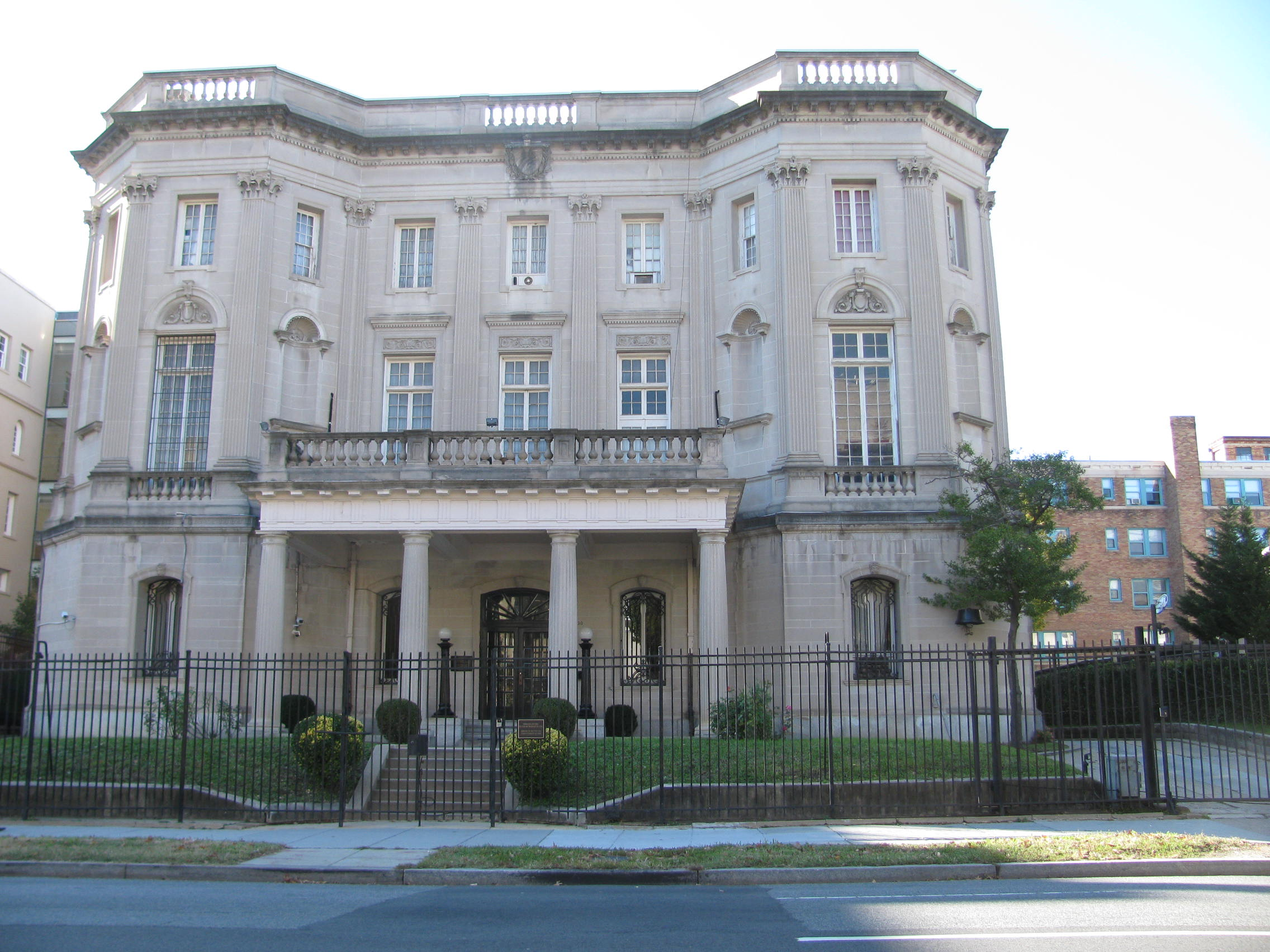 2639 16th Street Northwest, Washington, D.C cuban interests section